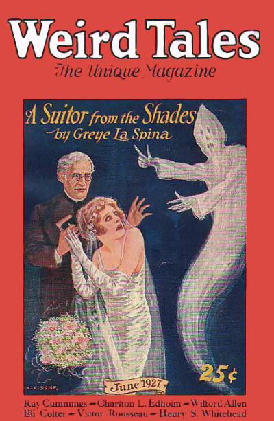 Cover of the pulp magazine Weird Tales (Jun 1927, vol. 9, no. 6) featuring A Suitor from the Shades by Greye La Spina.